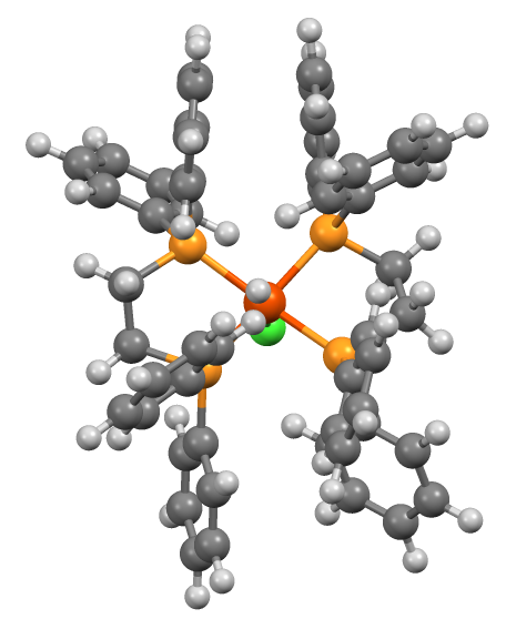 crystal structure of HFeCl(dppe)2